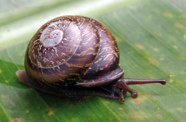 Photo of Pleurodonte guadeloupensis dominicana.